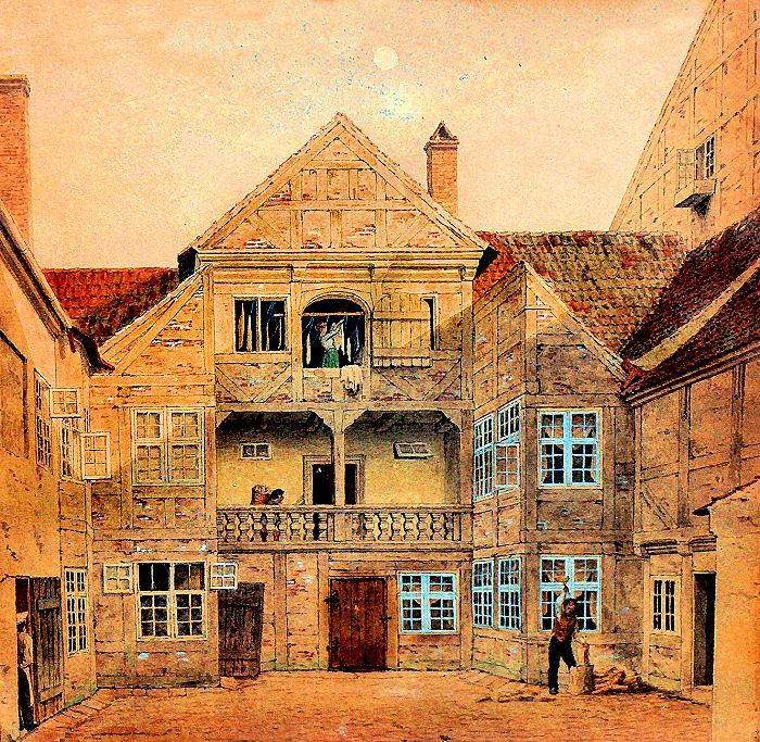 Den Collinske Gård in Bredgade where the Grandjean House was later built.